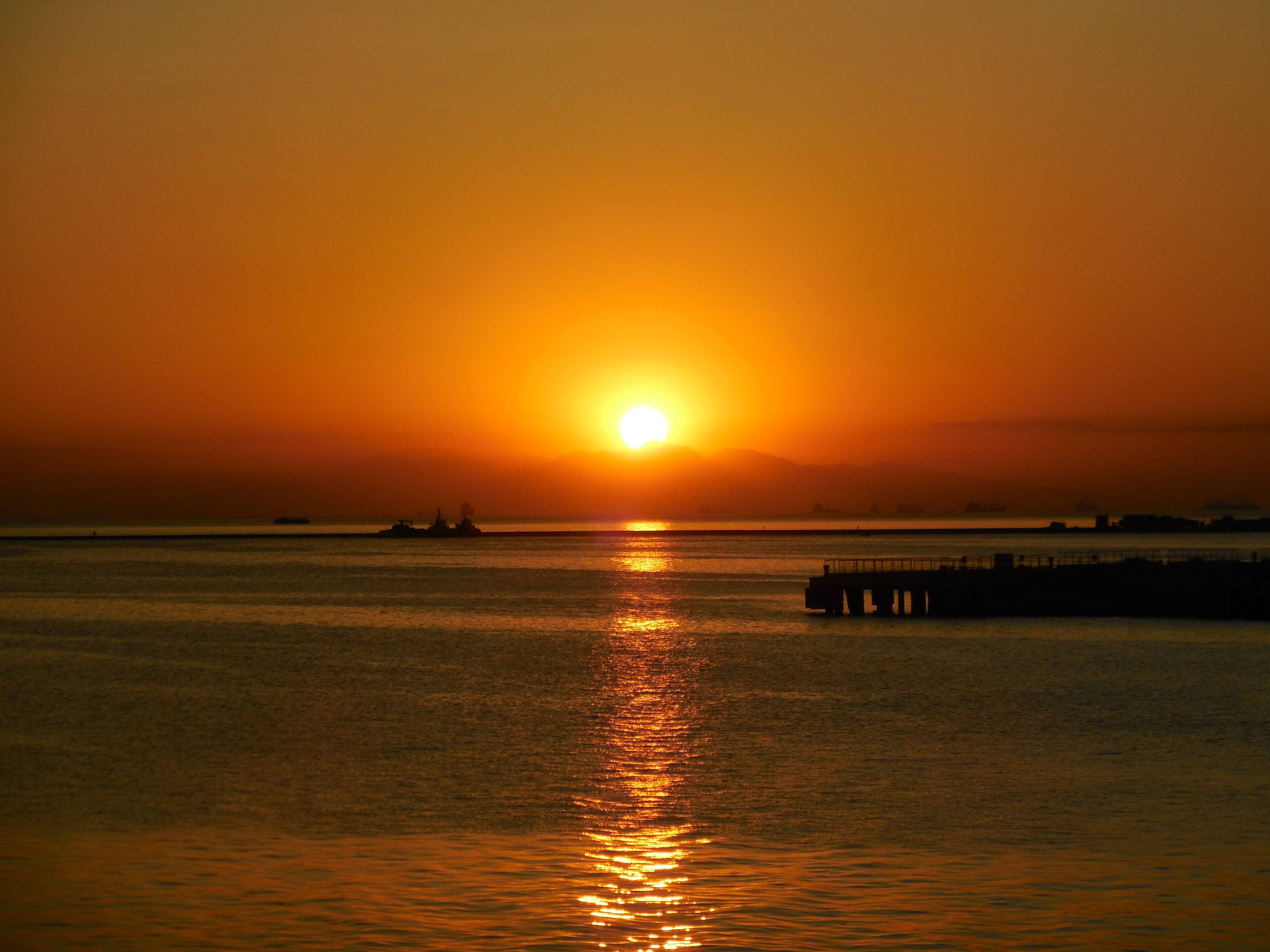 Manila Bay's iconic sunset, taken from the viewing deck of the Manila Ocean Park, Behind Quirino Grandstand, Rizal Park, Ermita, Manila, Philippines. (14.579431 N, 120.972597 E)